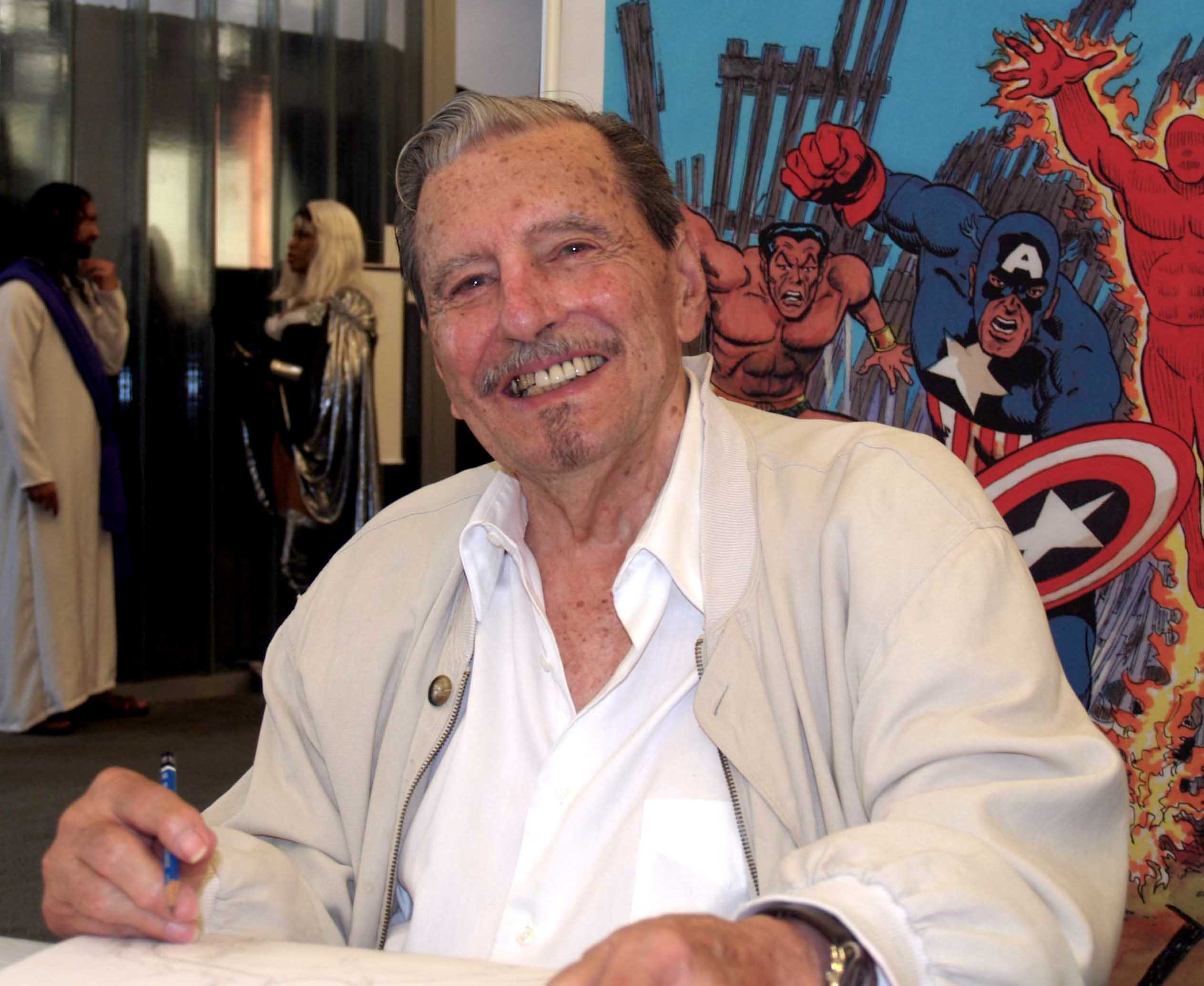 Comics artist Ken Bald at the 2013 Wizard World New York Experience Comic Con, at Pier 36 in Manhattan, June 29, 2013. This photo was created by Luigi Novi. It is not in the public domain, and use of this file outside of the licensing terms is a copyright violation.